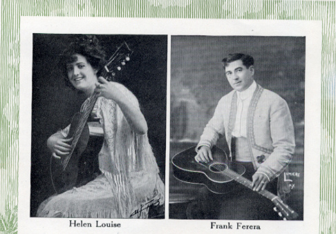 Hawaiian musician Frank Ferera and his wife Helen Louise